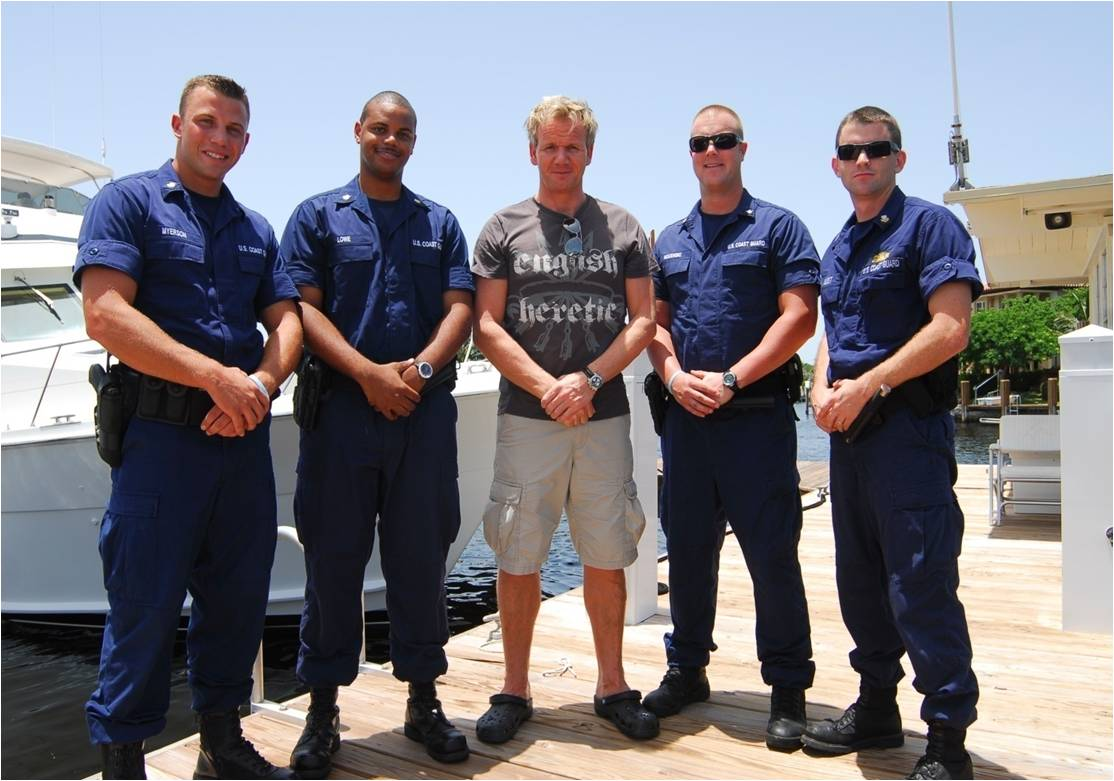 Local U.S. Coast Guard personnel from Station Fort Lauderdale are featured patrolling the inter-coastal waterways near a local restaurant on “Kitchen Nightmares.” Here the crew poses with Gordon Ramsay. �Coast Guard photo by PA3 Nicholas Ameen.